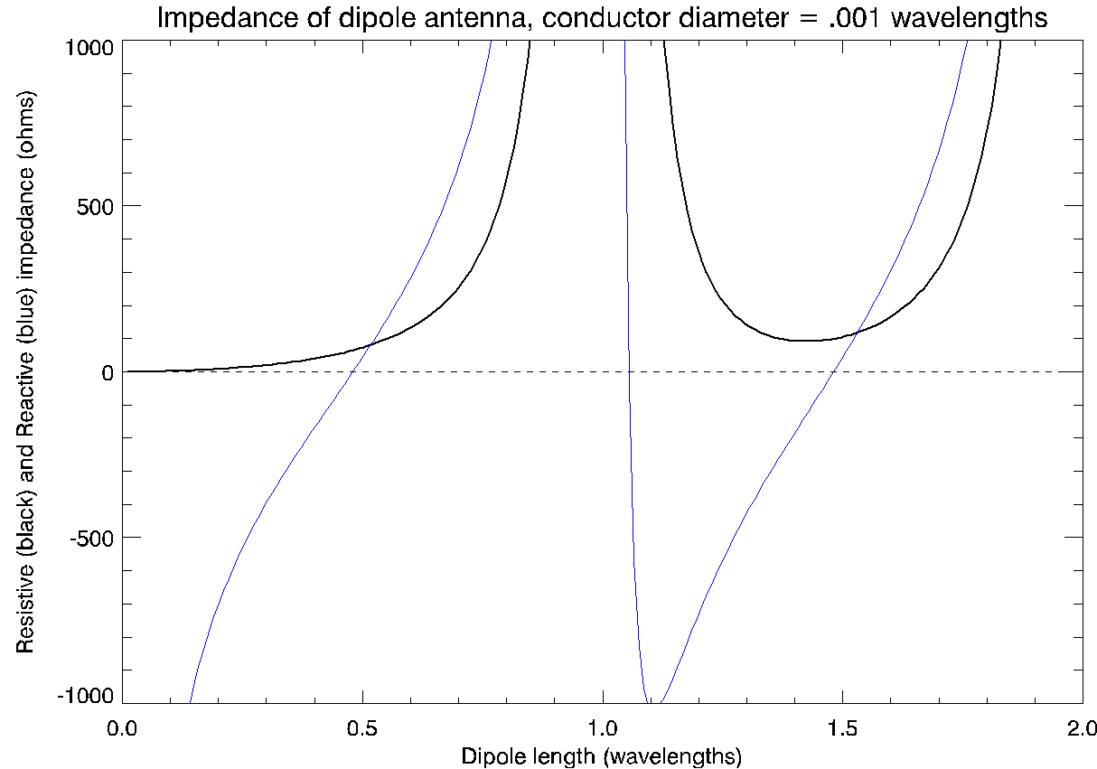 Driving point impedance of dipole antenna (black real, blue imaginary) with conductor diameter of .001 wavelengths with length 0 - 2 wavelengths. Computed using induced EMF method.